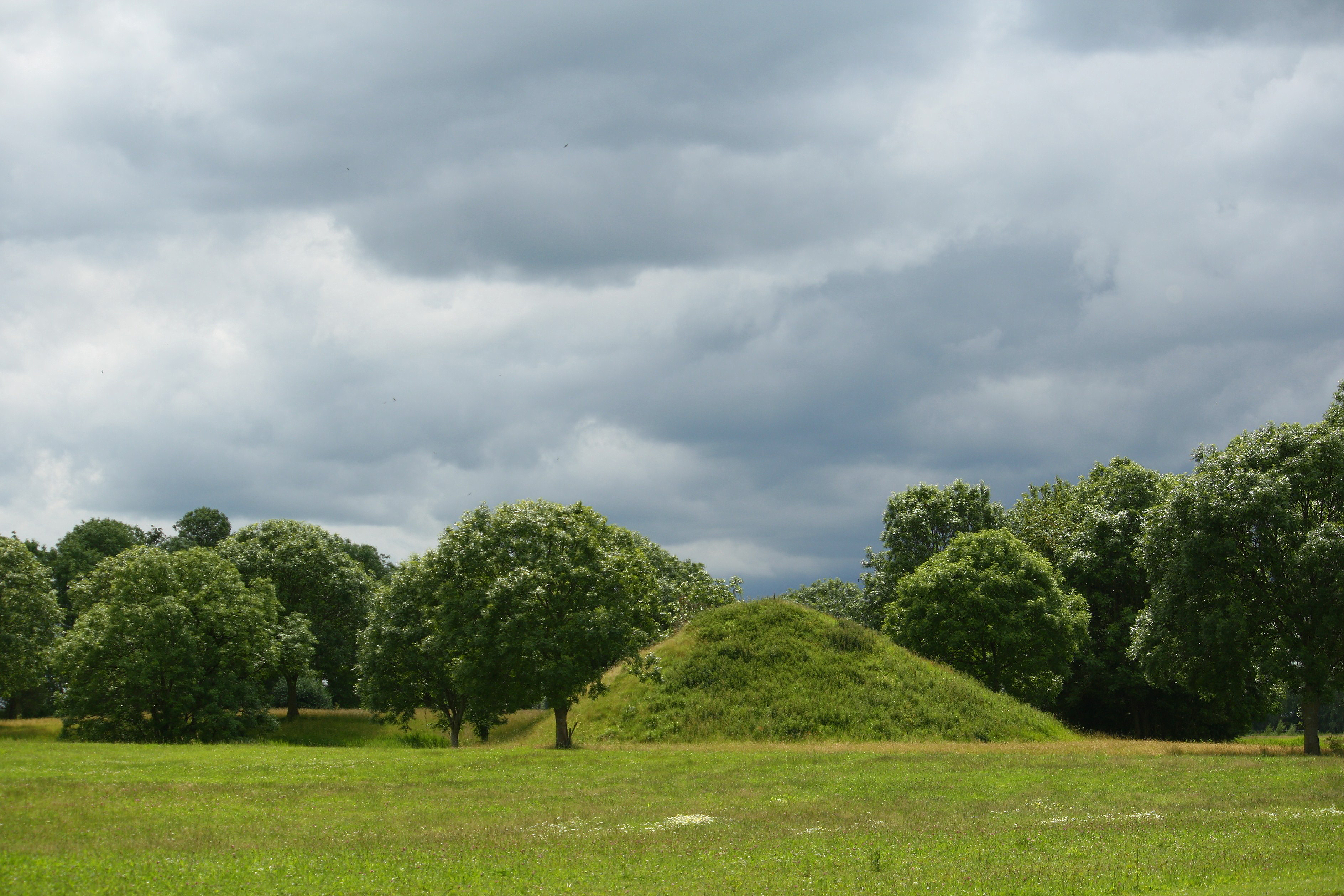 Vliedberg from Bitgum, the Netherlands